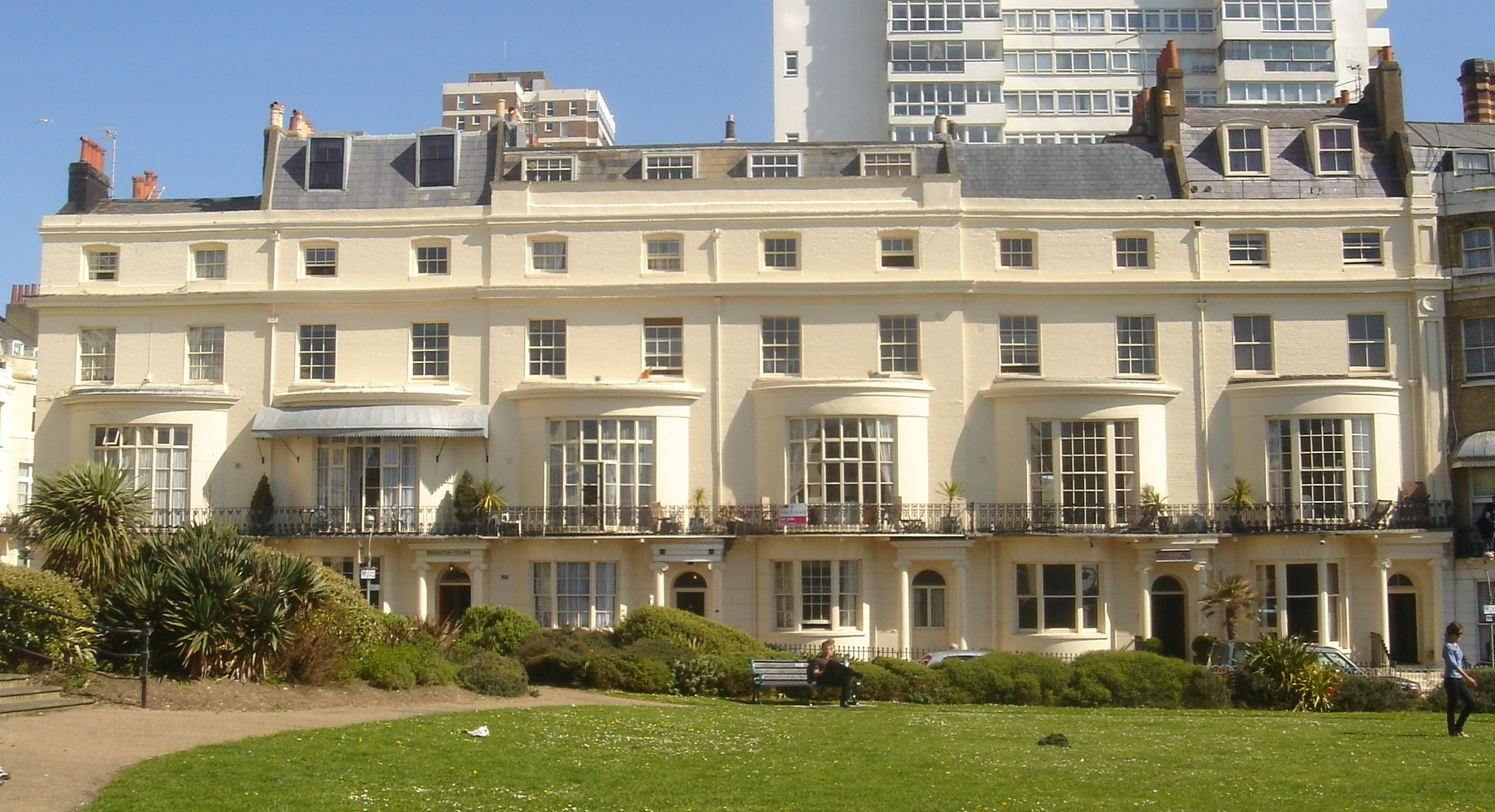 51–56 Regency Square, Brighton, City of Brighton and Hove, England. The northeast part of the Regency Square development built in Brighton around 1818. Listed at Grade II* by English Heritage (IoE Code 481135)